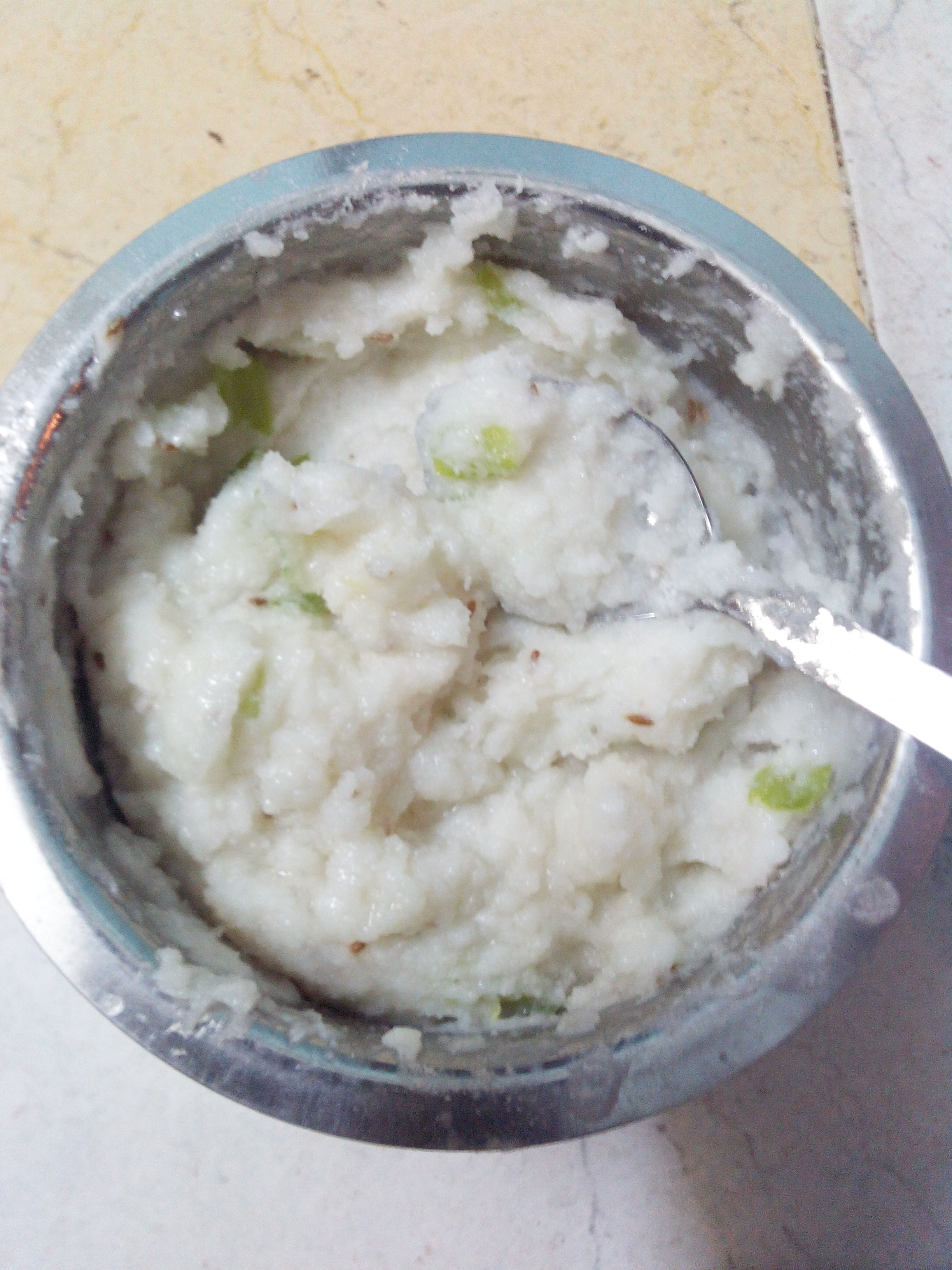 Kheechu (Cooked Rice Flour) from Gujarat, India